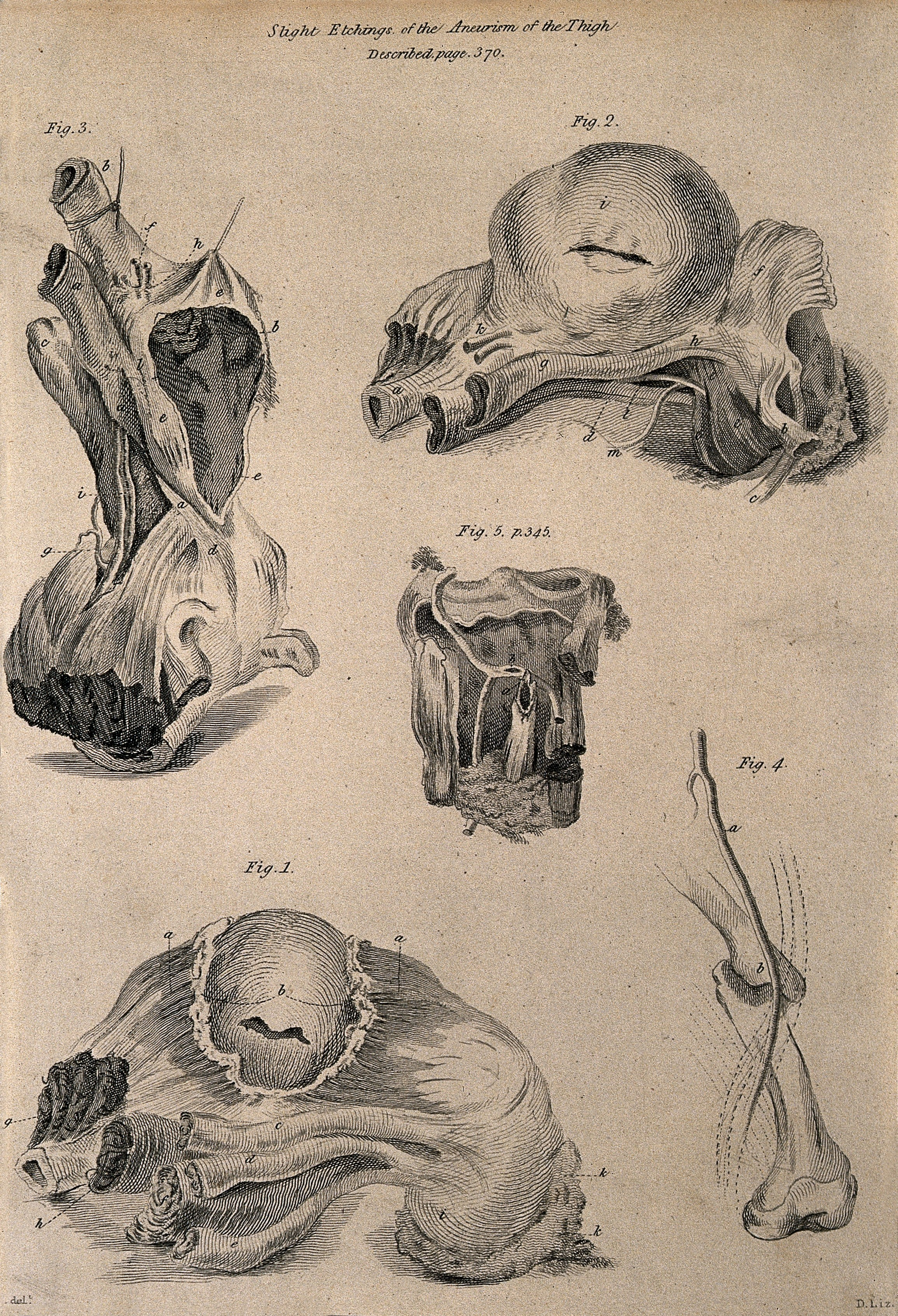 Five examples of aneurisms of the thigh, lettered for key. Etching by D. Lizars, c. 1810 (?). Iconographic Collections Keywords: Daniel Lizars